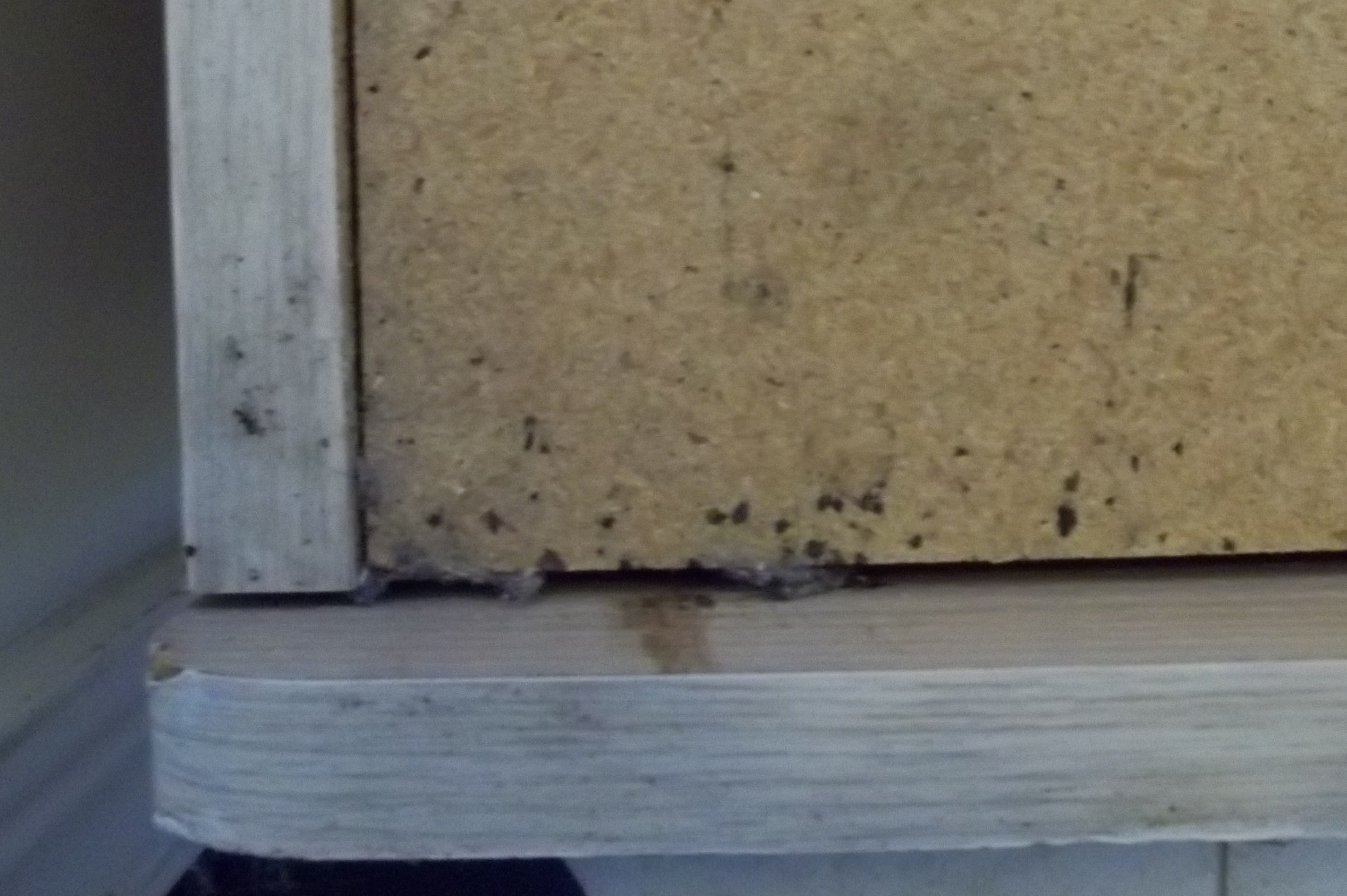 Bed Bug feces stain on a corner of a bed